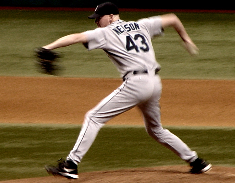 Jeff Nelson delivering a pitch to the Tampa Bay Devil Rays, May, 2005. 19:46, 29 May 2005 . . Googie man . . 750×586 (179 KB)